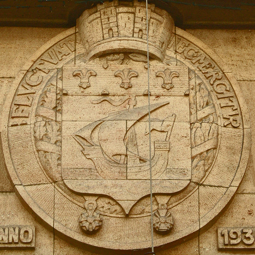 Coats of arms of Paris.